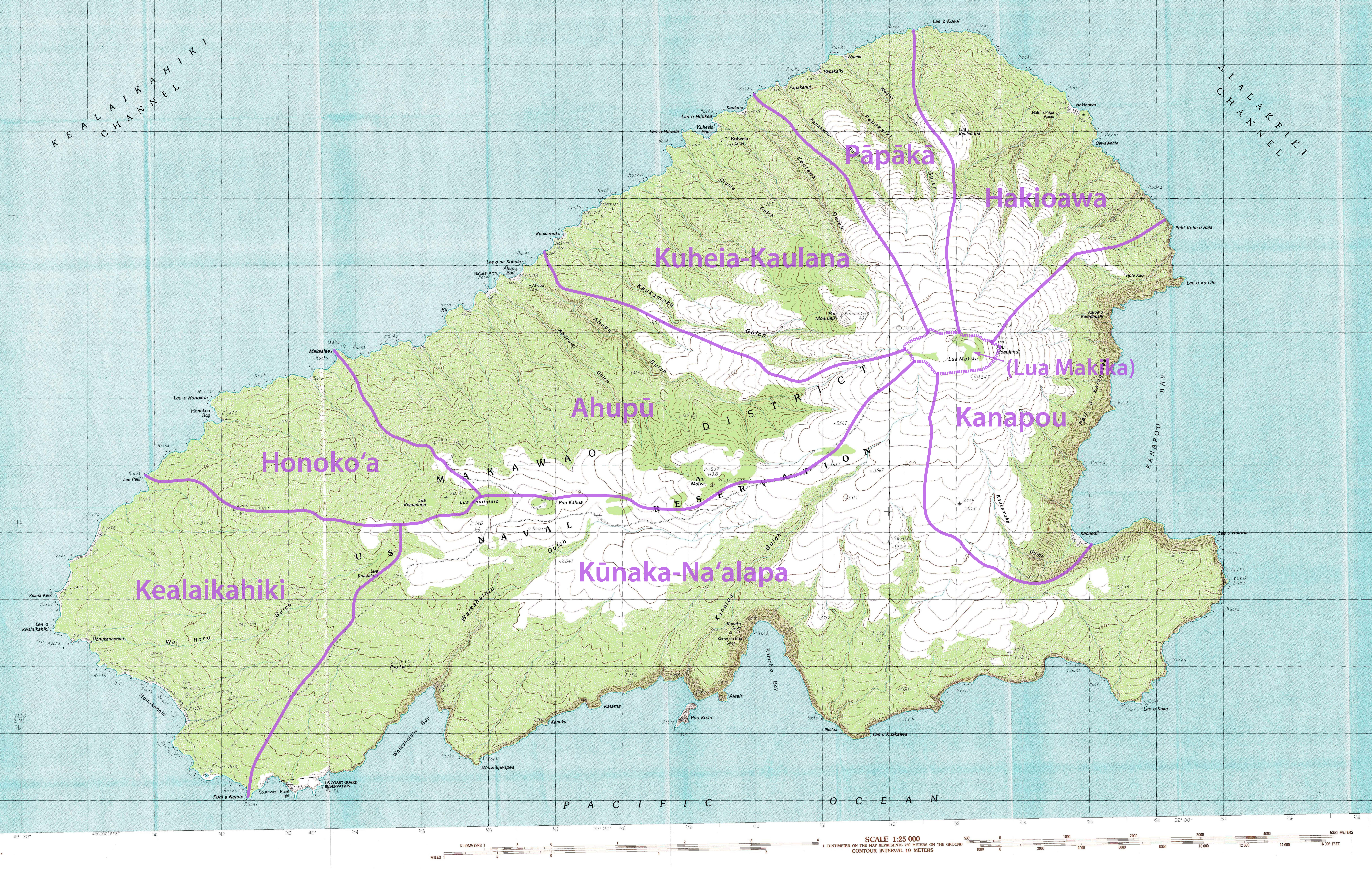 Traditional subdivision of the eight ʻili of the Kahoolawe Island (Hawaii)